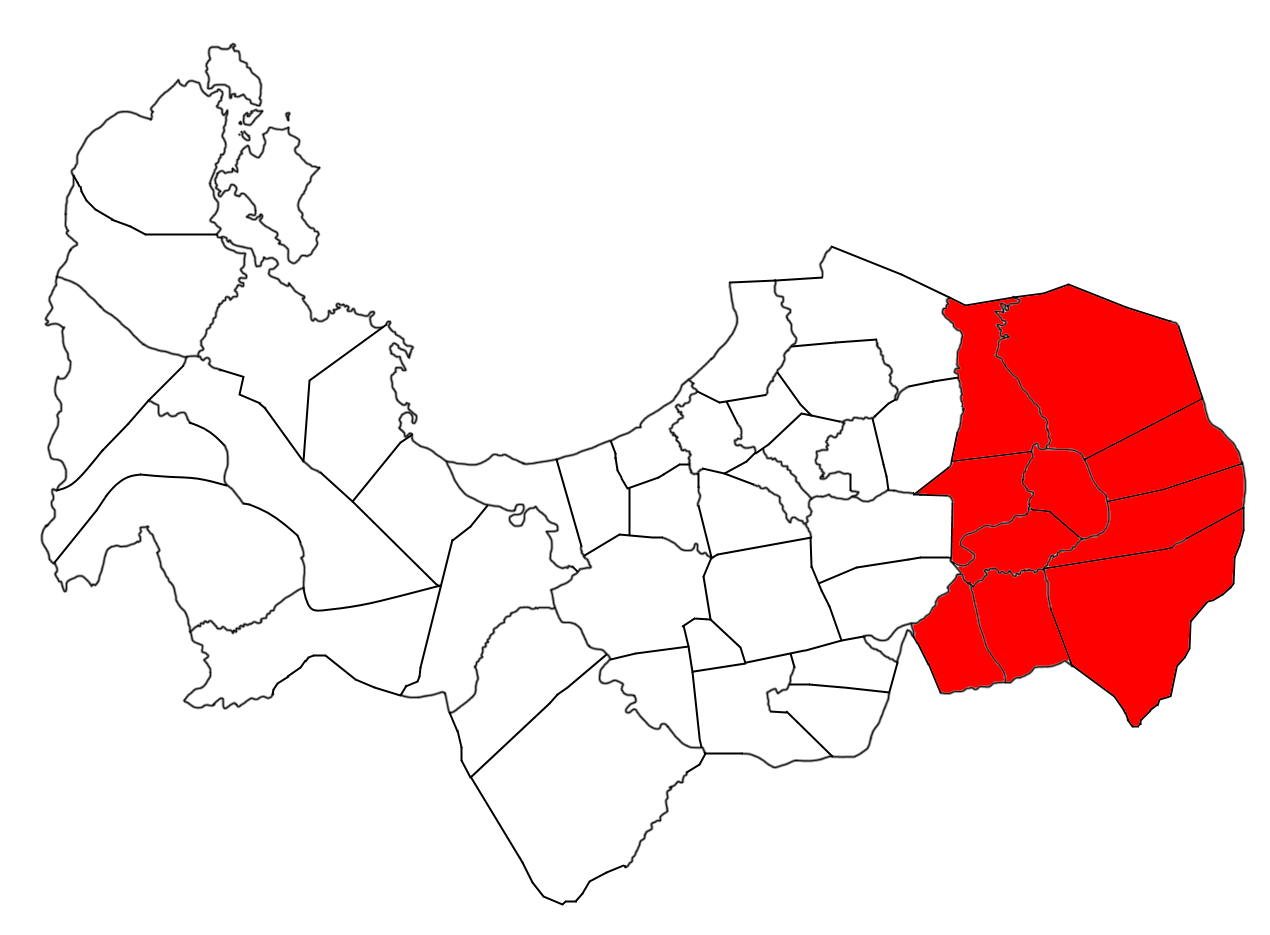 a 6d district map